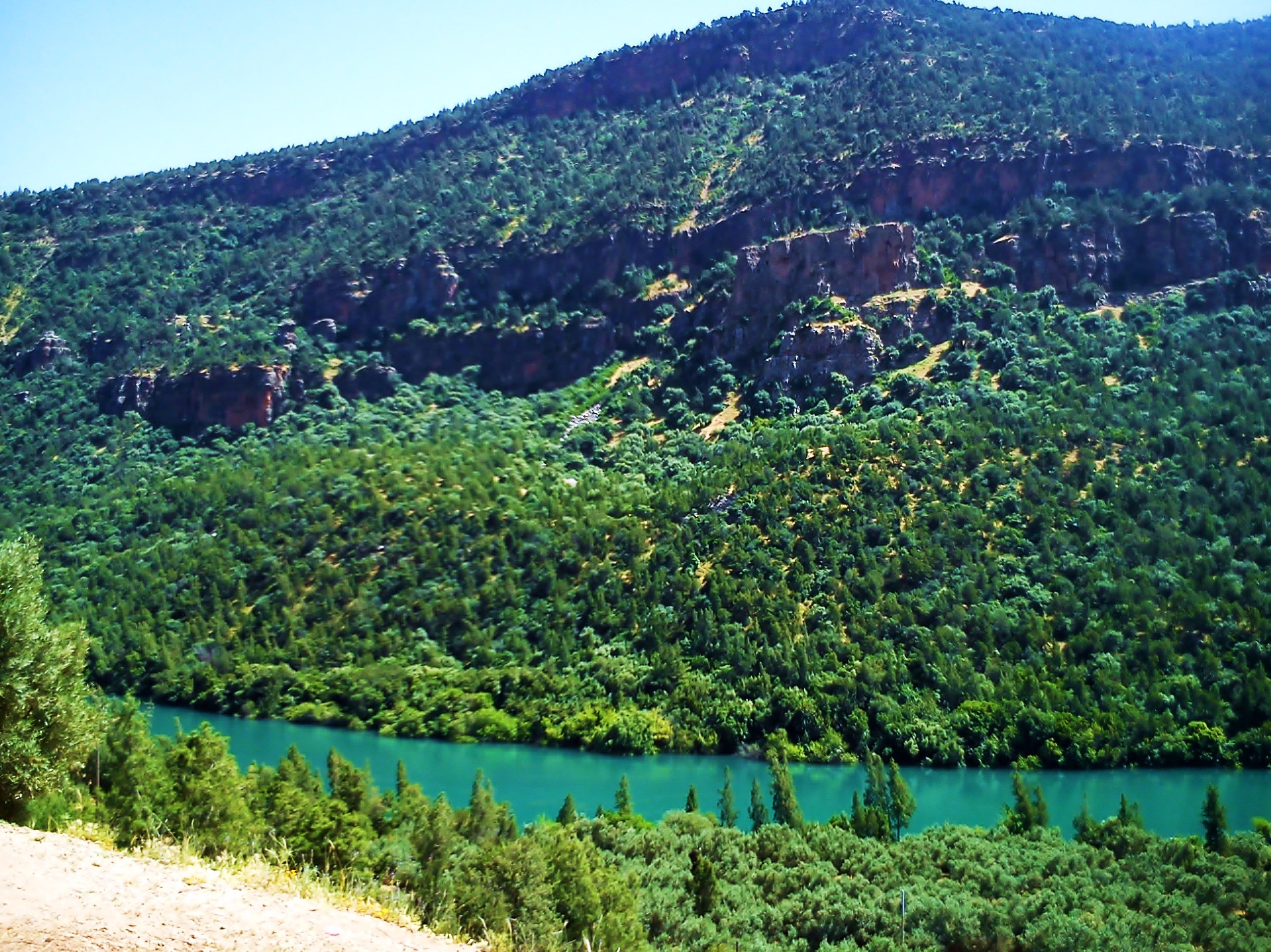 Mountain, Atlas, Ecotourism_Morocco